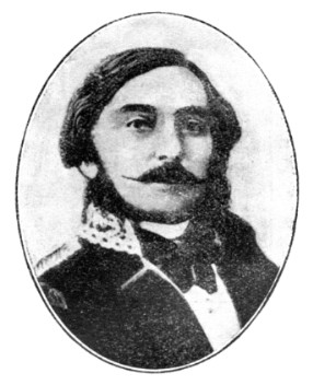 Photograph of the Italian admiral Emilio Faà di Bruno (died 1866).